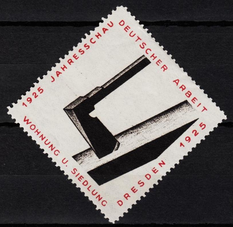 Poster stamp ...